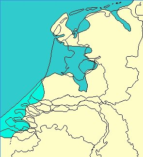 Paleogeography of the Netherlands during the Eemian Interglacial; according to data from Van der Heide, 1965